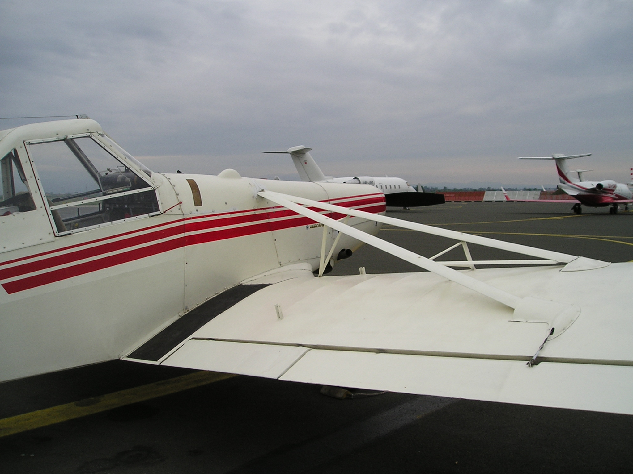 Wing Brace strut